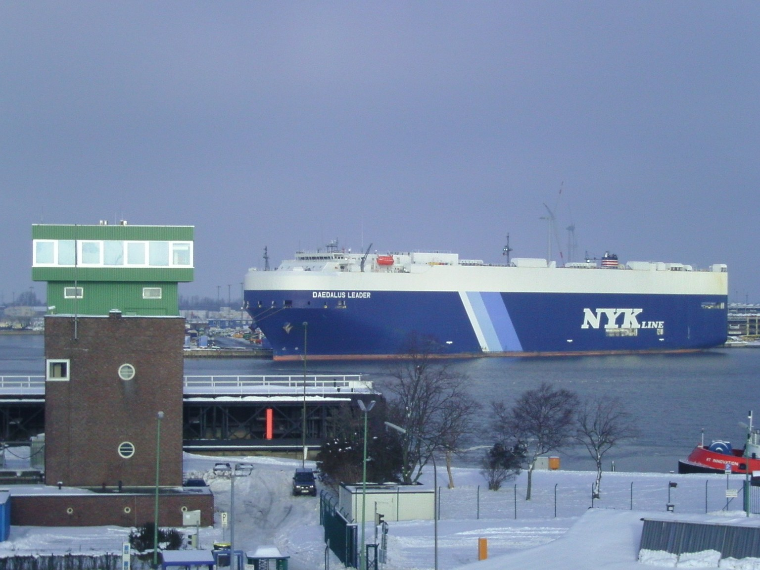 The car carrier Daedalus Leader in the port of Bremerhaven